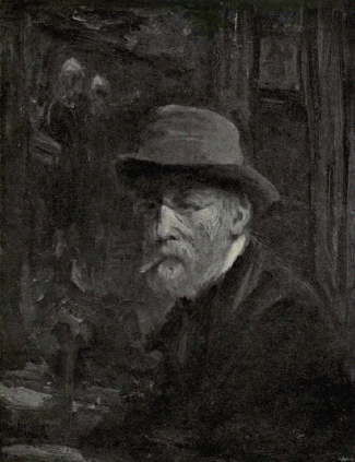 Dutch Art in the Nineteenth Century